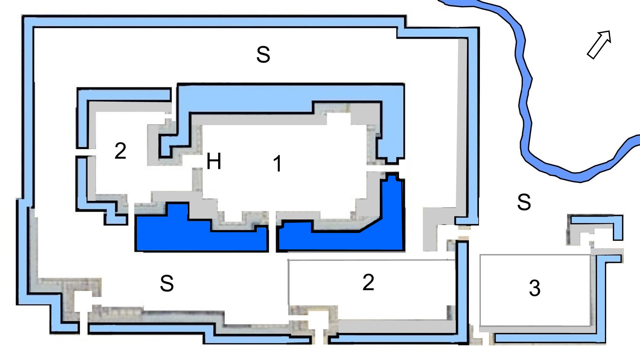 Layout of former Shinjo castle